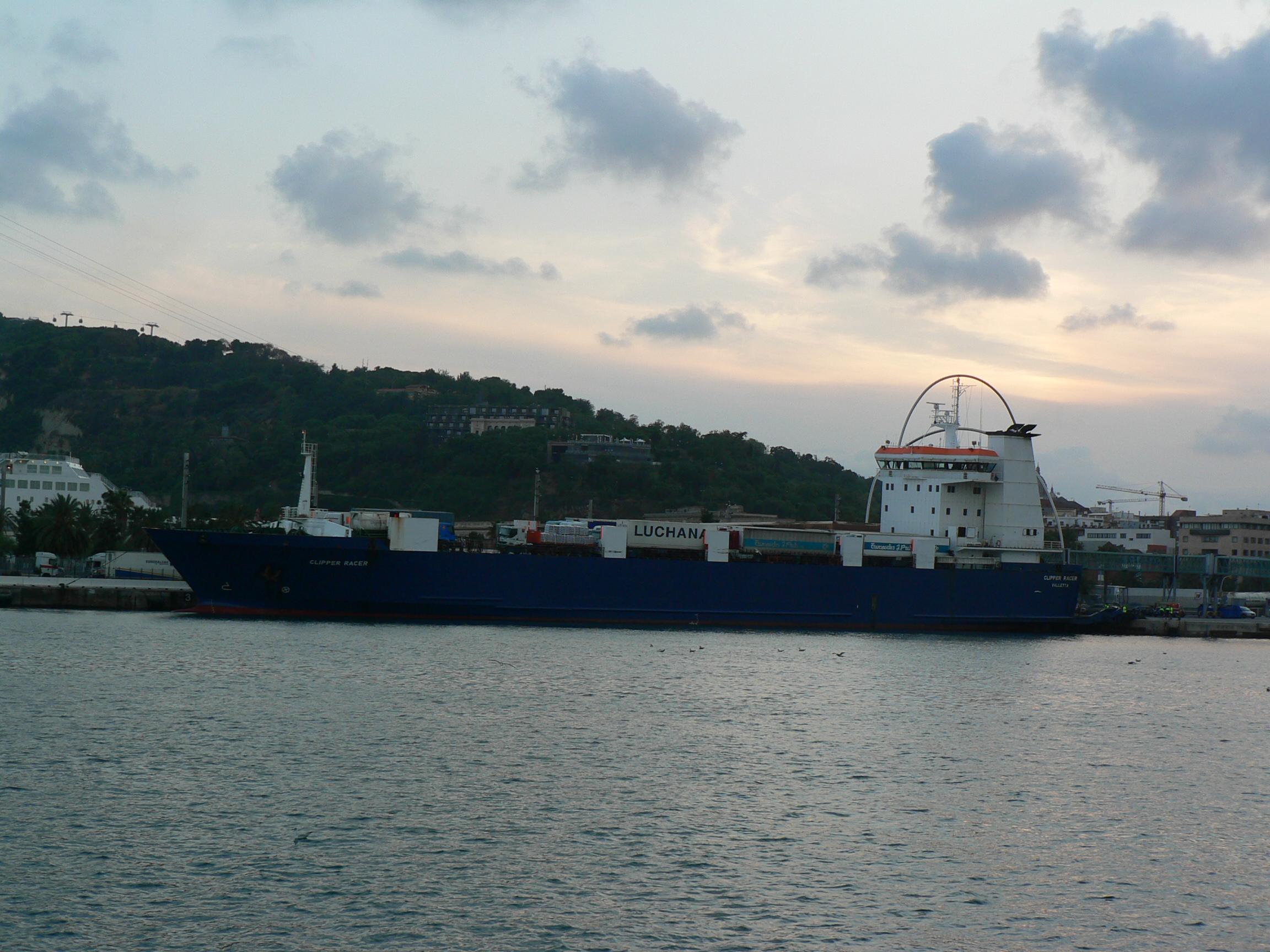 Barcelona, Spain